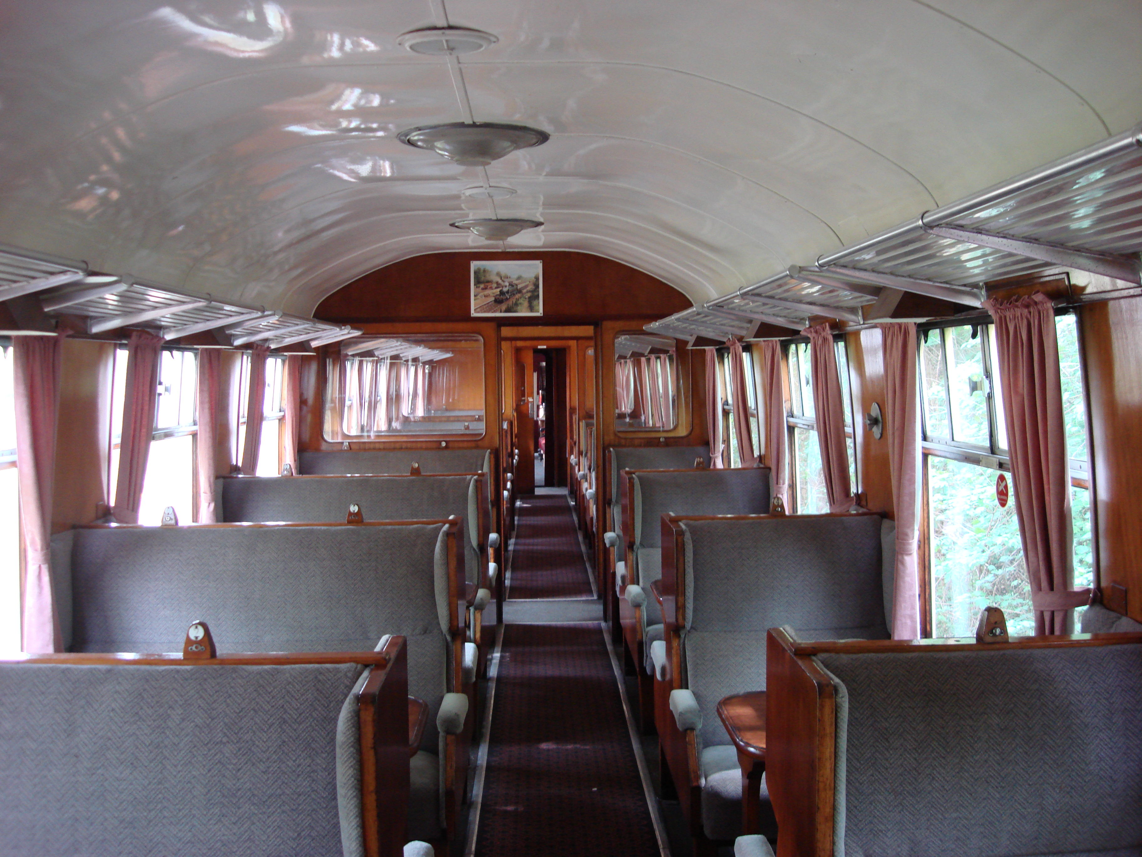 A British Rail Mk1 coach Second Open (with 2+1 seating) interior at the Colne Valley Railway